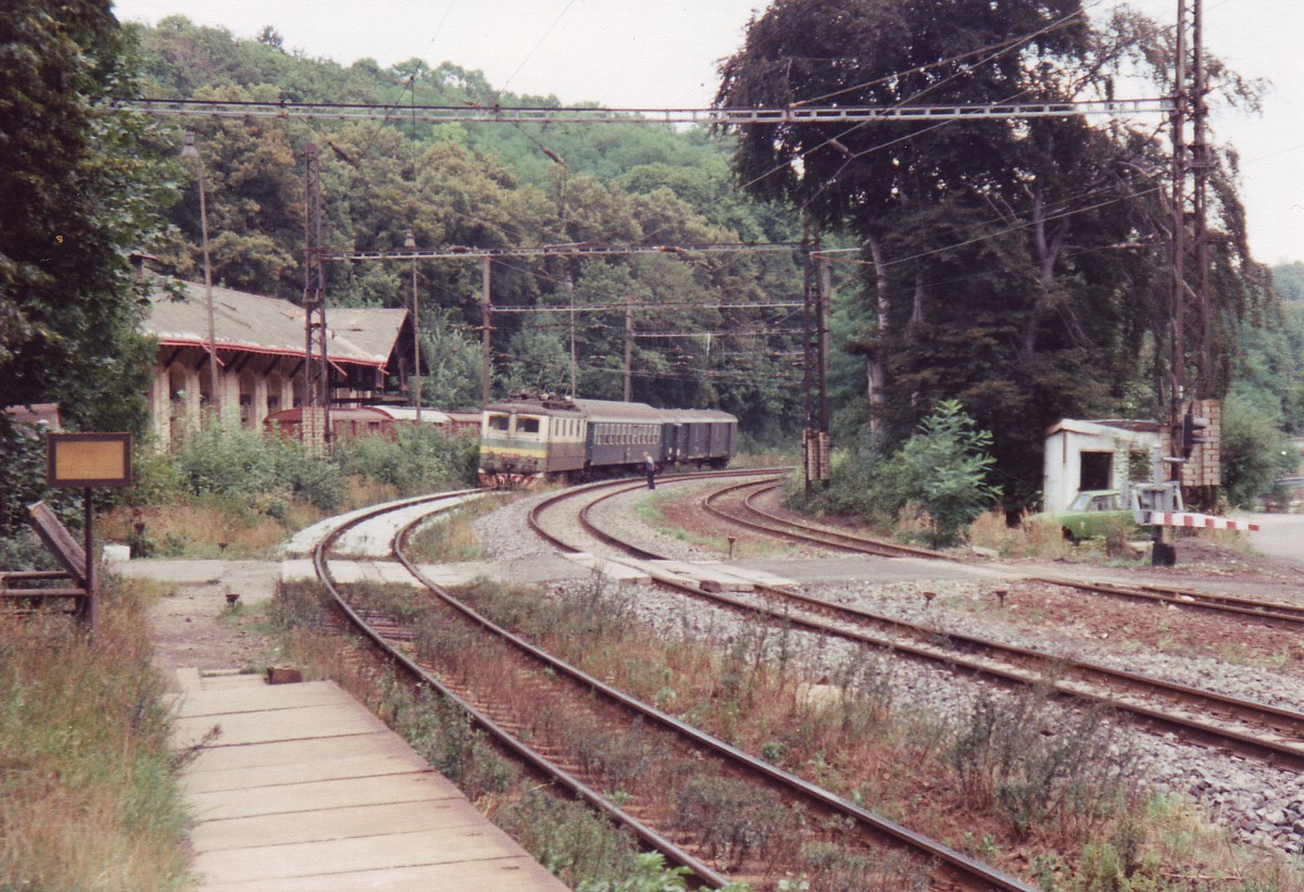 Passenger train at "Bílina kyselka", Czech Republic